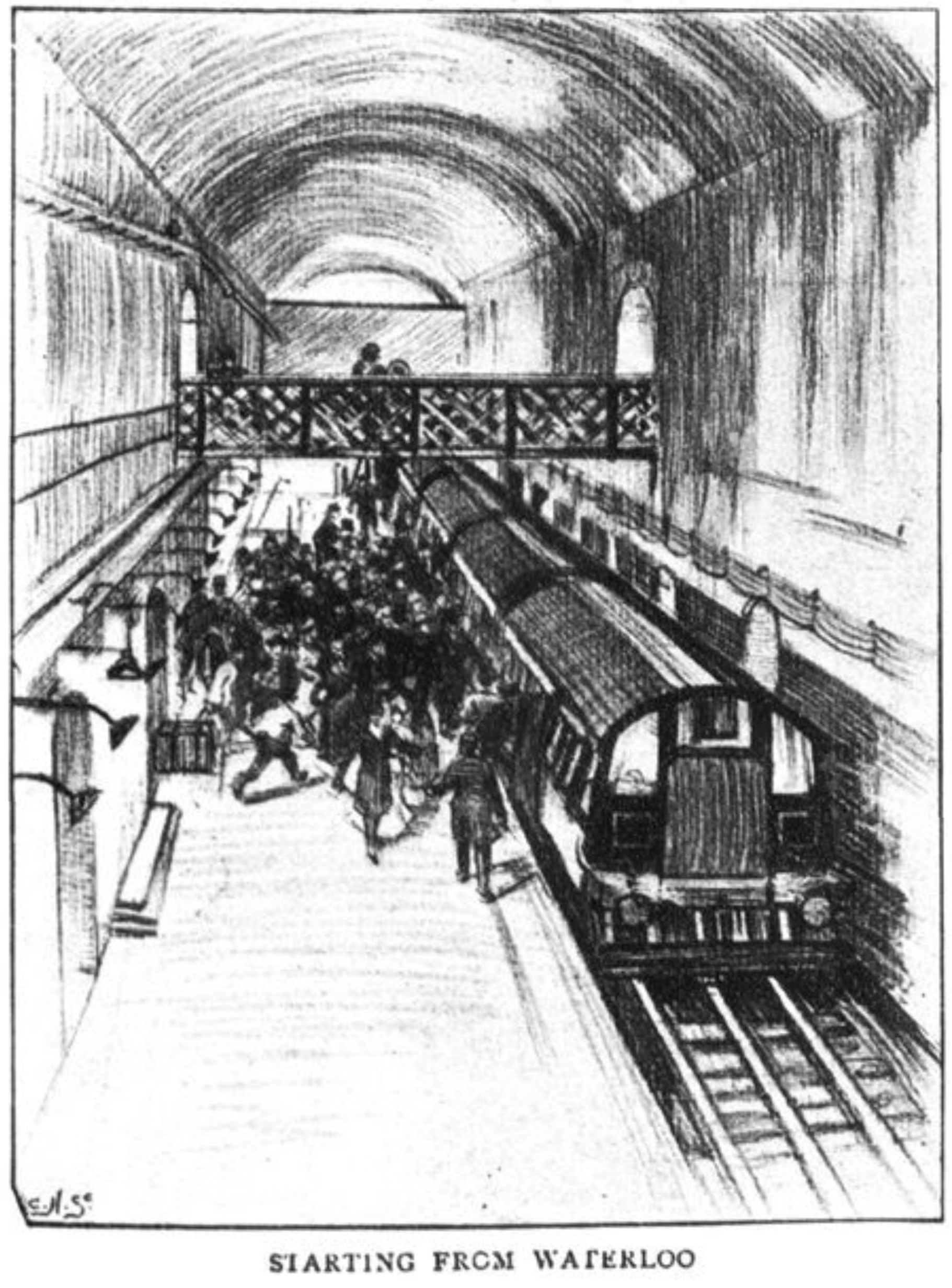 Artist's impression of the Waterloo station of the Waterloo & City Railway London in 1898